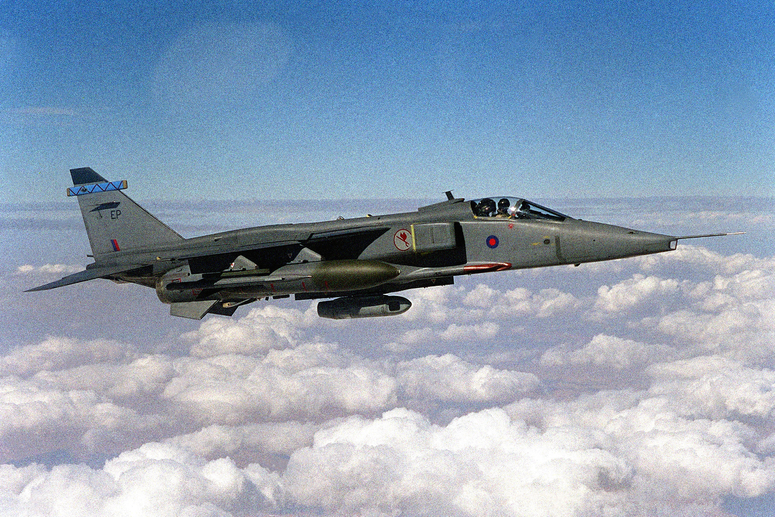 A British SEPECAT Jaguar GR3 fighter of No. 6 Squadron, Royal Air Force, flies along side a RAF Vickers VC-10 tanker (not shown) during a mission supporting "Operation Northern Watch" over northern Iraq on 18 October 2000.